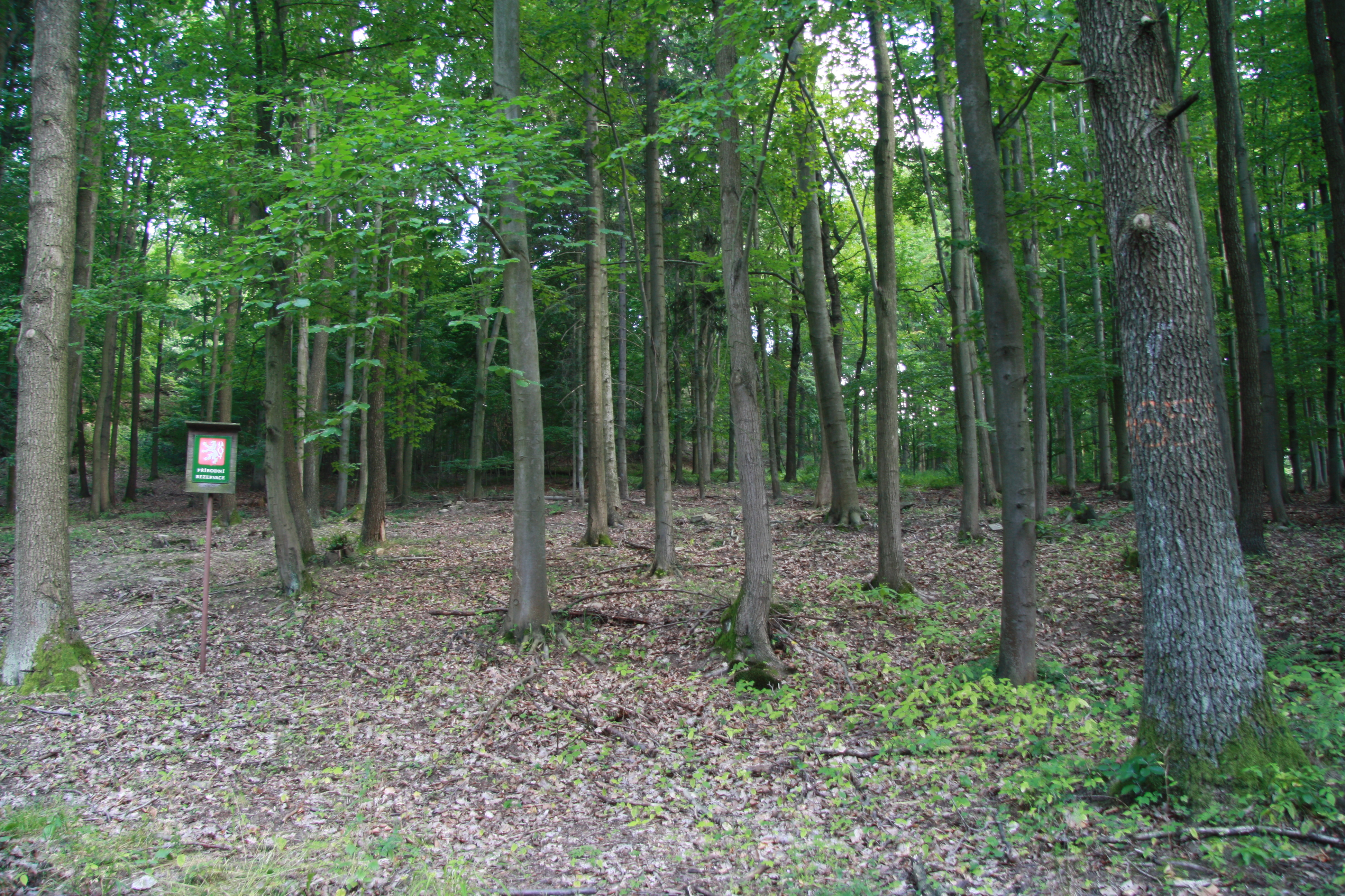 Quercus robur trees and natural reserve sign in natural reserve Suchá hora, Třebíč District.